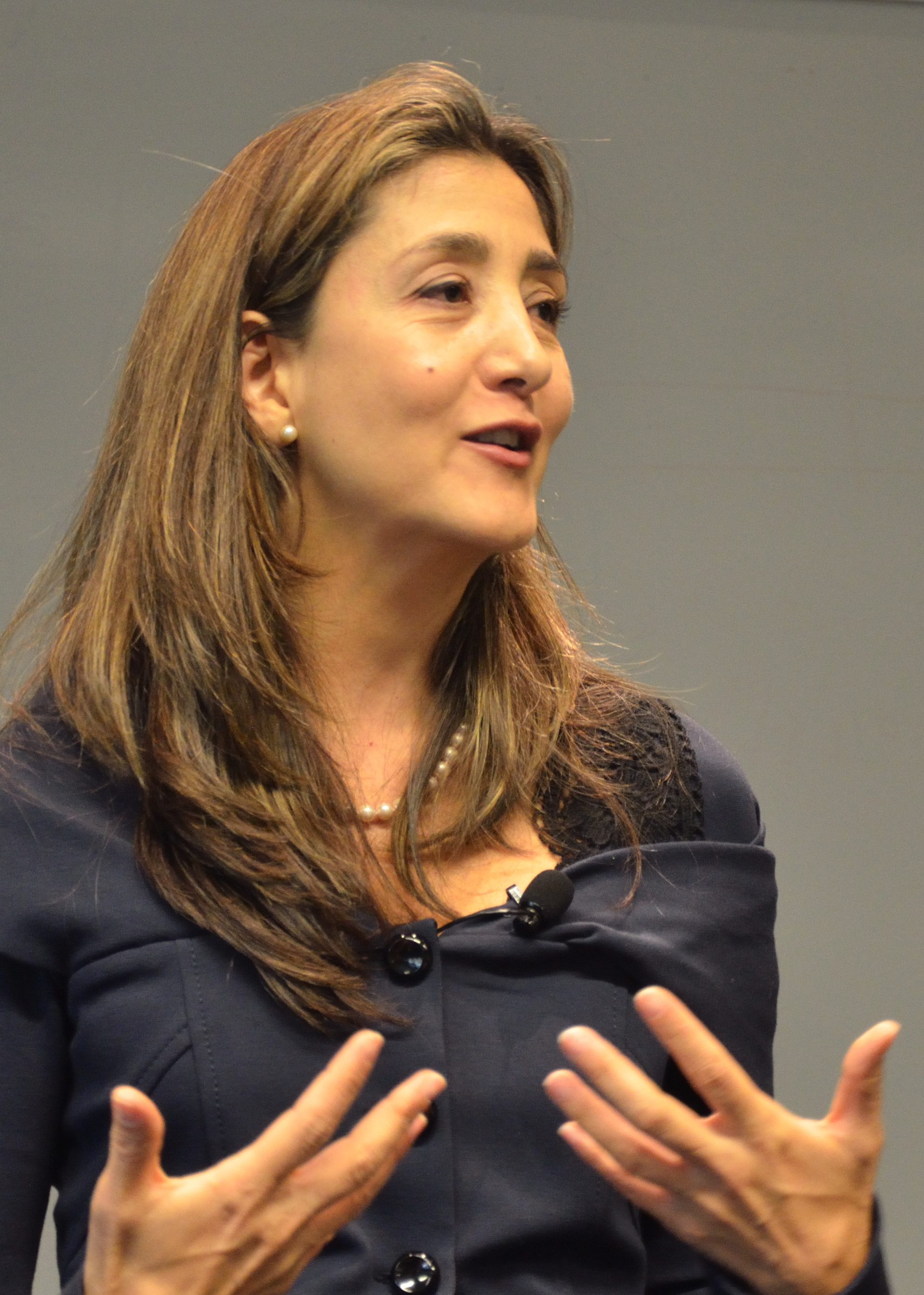 Íngrid Betancourt speaks to the Microsoft Political Action Committee at the company's Redmond, Washington campus.